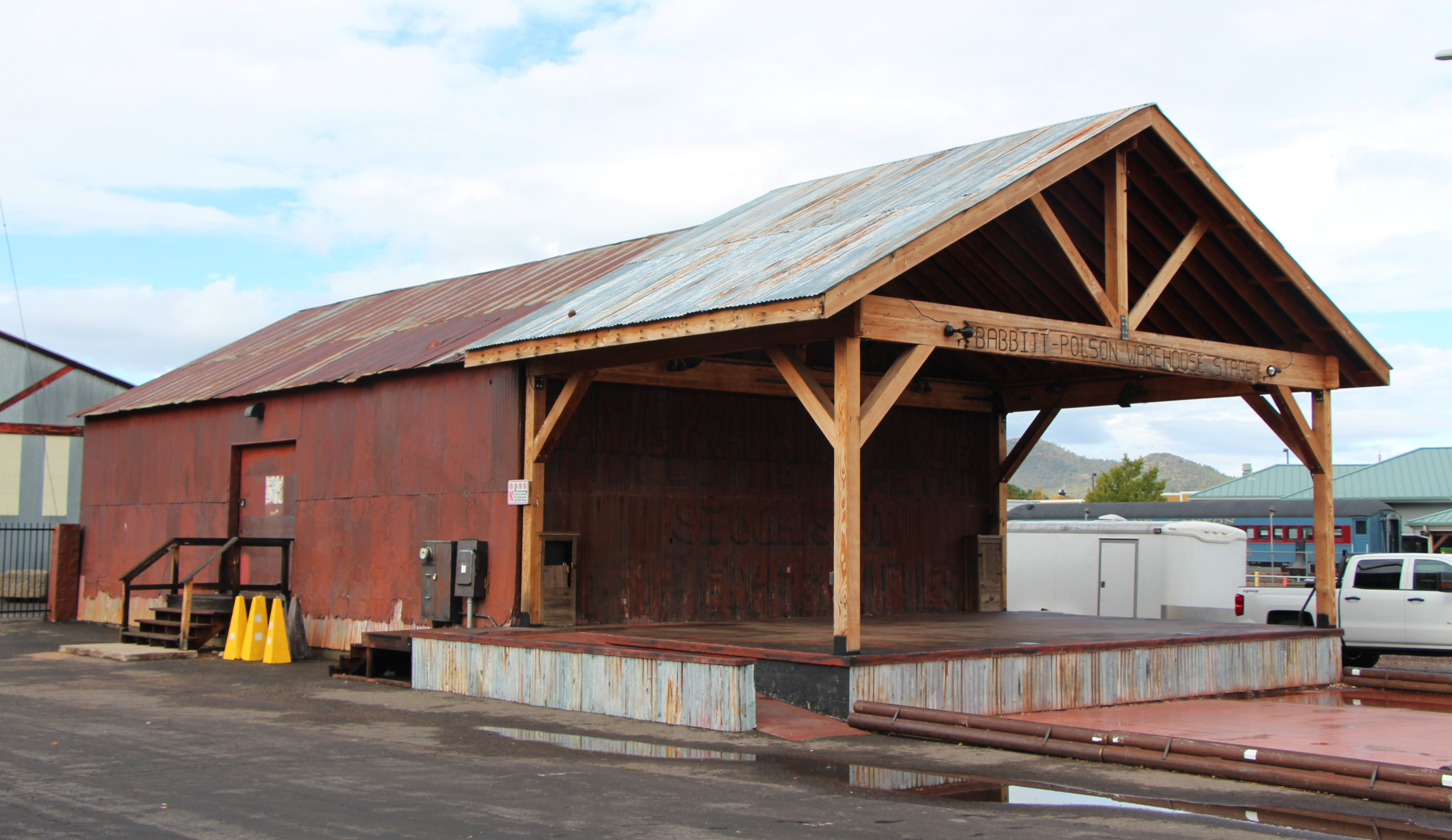 Babbitt-Polson Warehouse, NW of Visitors Center, Williams, AZ